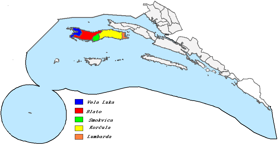 Municipalities on the island of Korčula